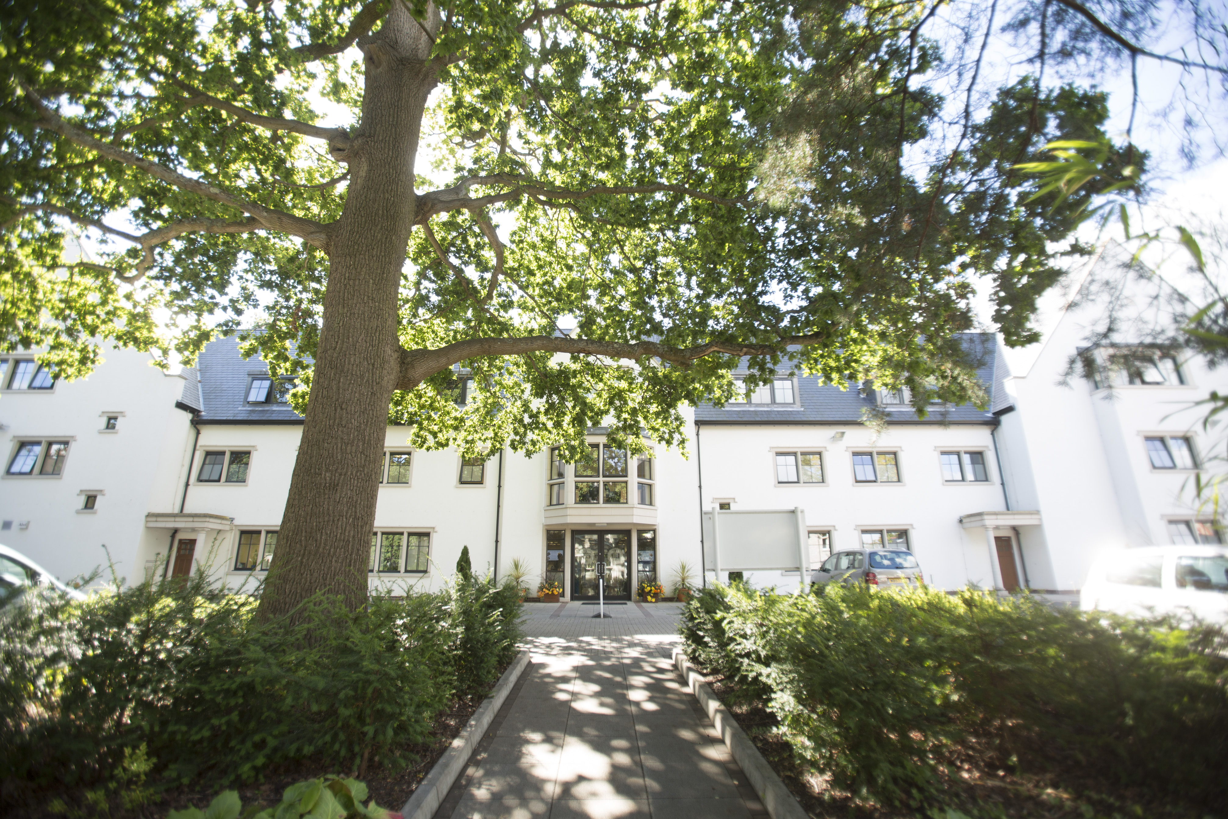 This is a photo of the AECC clinic building